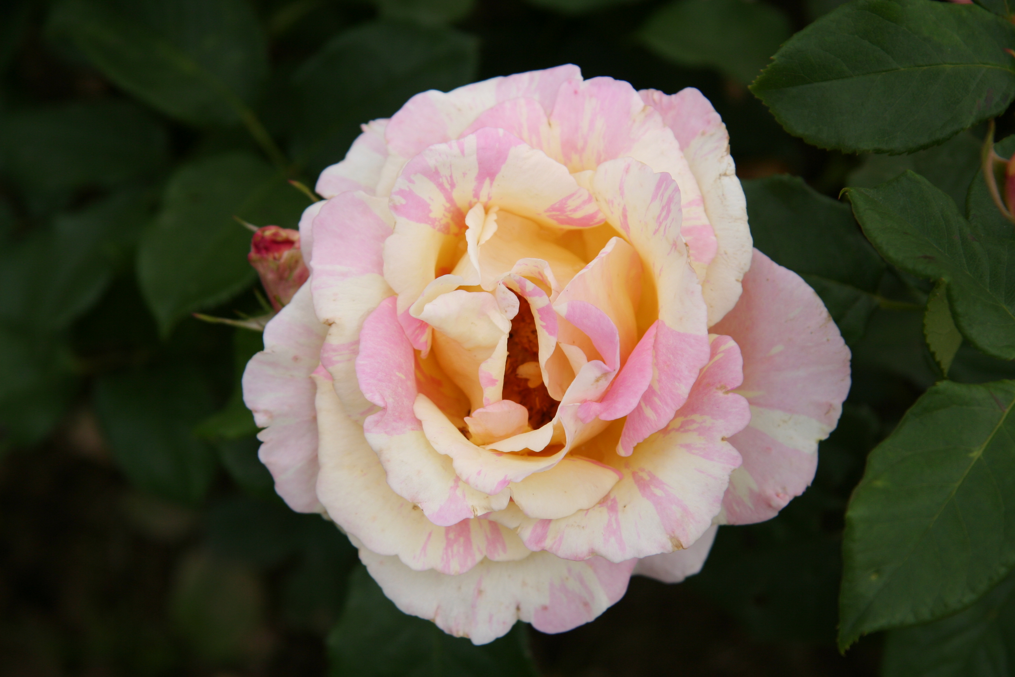 Claude Monet rose - Bagatelle Rose Garden (Paris, France).